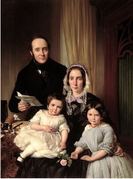 Familieportret van apotheker Kipp, 1849